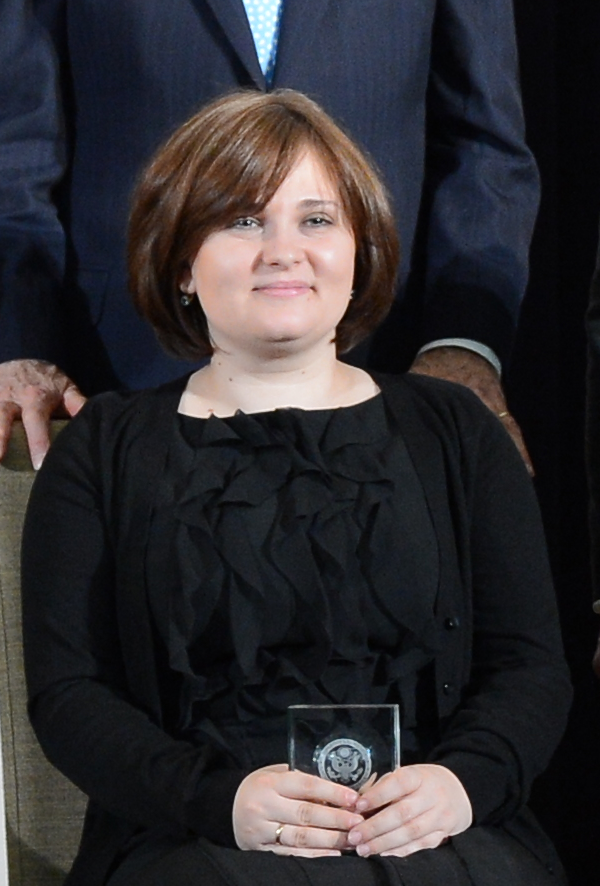 2013 International Women of Courage Awards Remarks John Kerry Secretary of State Dean Acheson Auditorium Washington, DC March 8, 2013